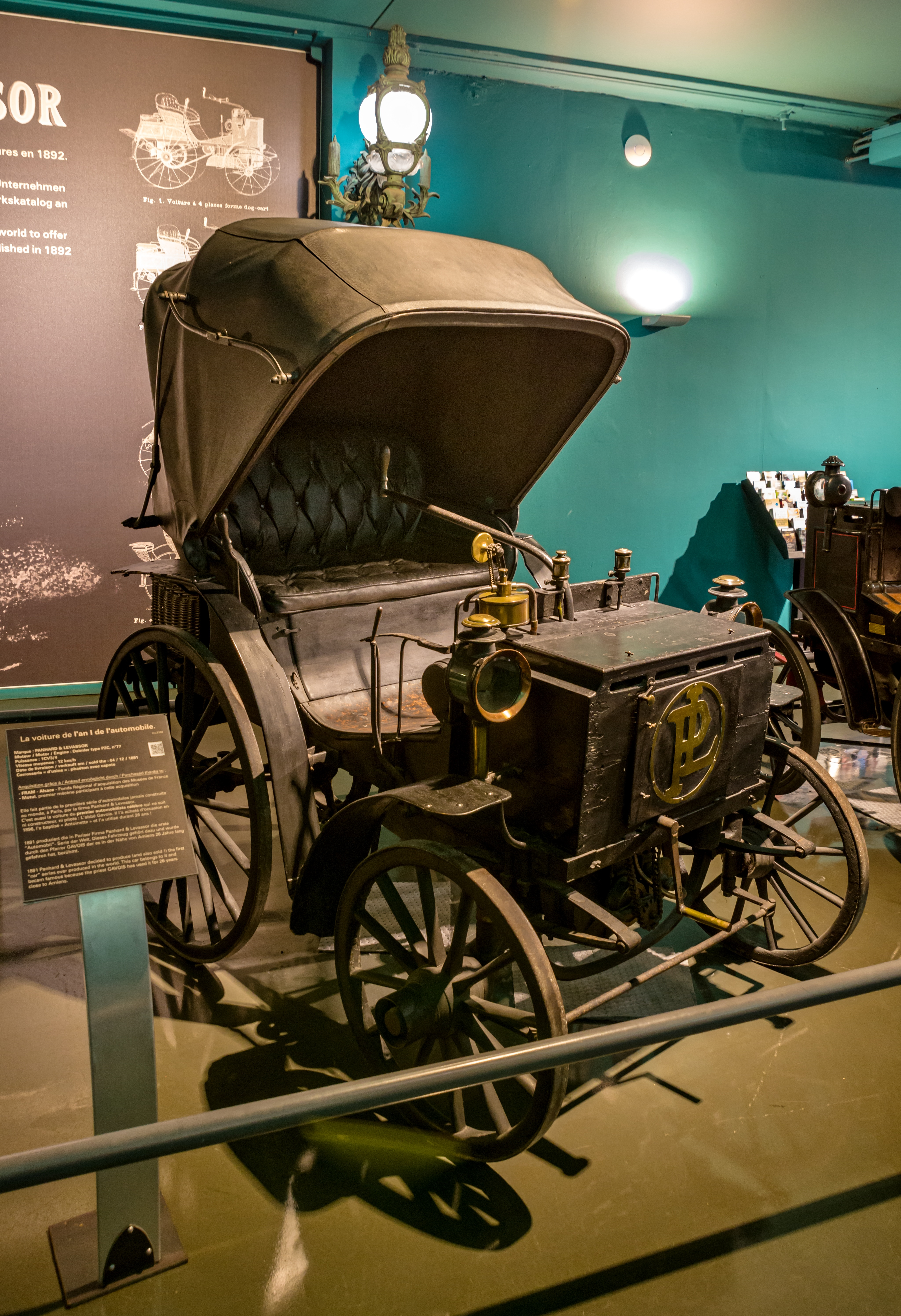 pictures from the Cité de l’Automobile – Musée National – Collection Schlump in Mulhouse, France ptictures from the 10. may 2018 Panhard & Levassor automobiles